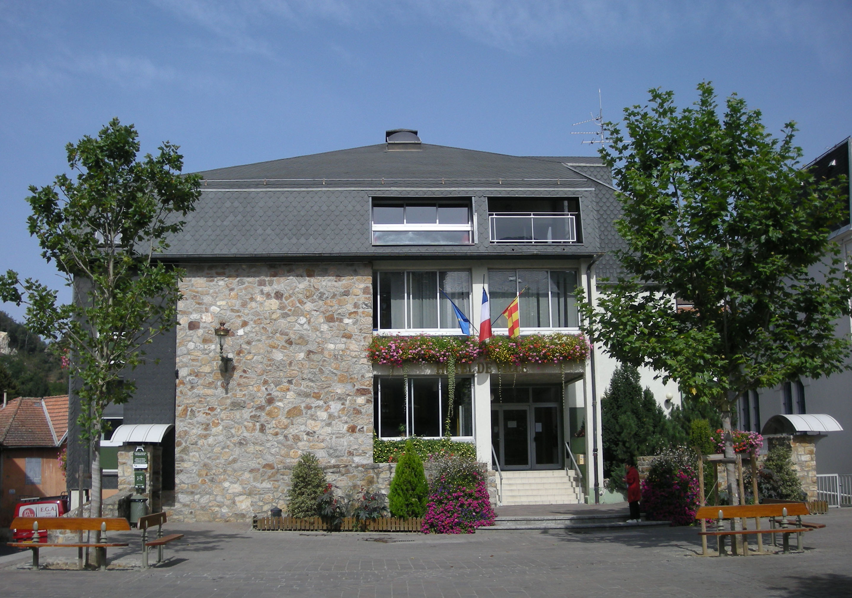 Town hall of Ax-les-Thermes, Ariège, France.